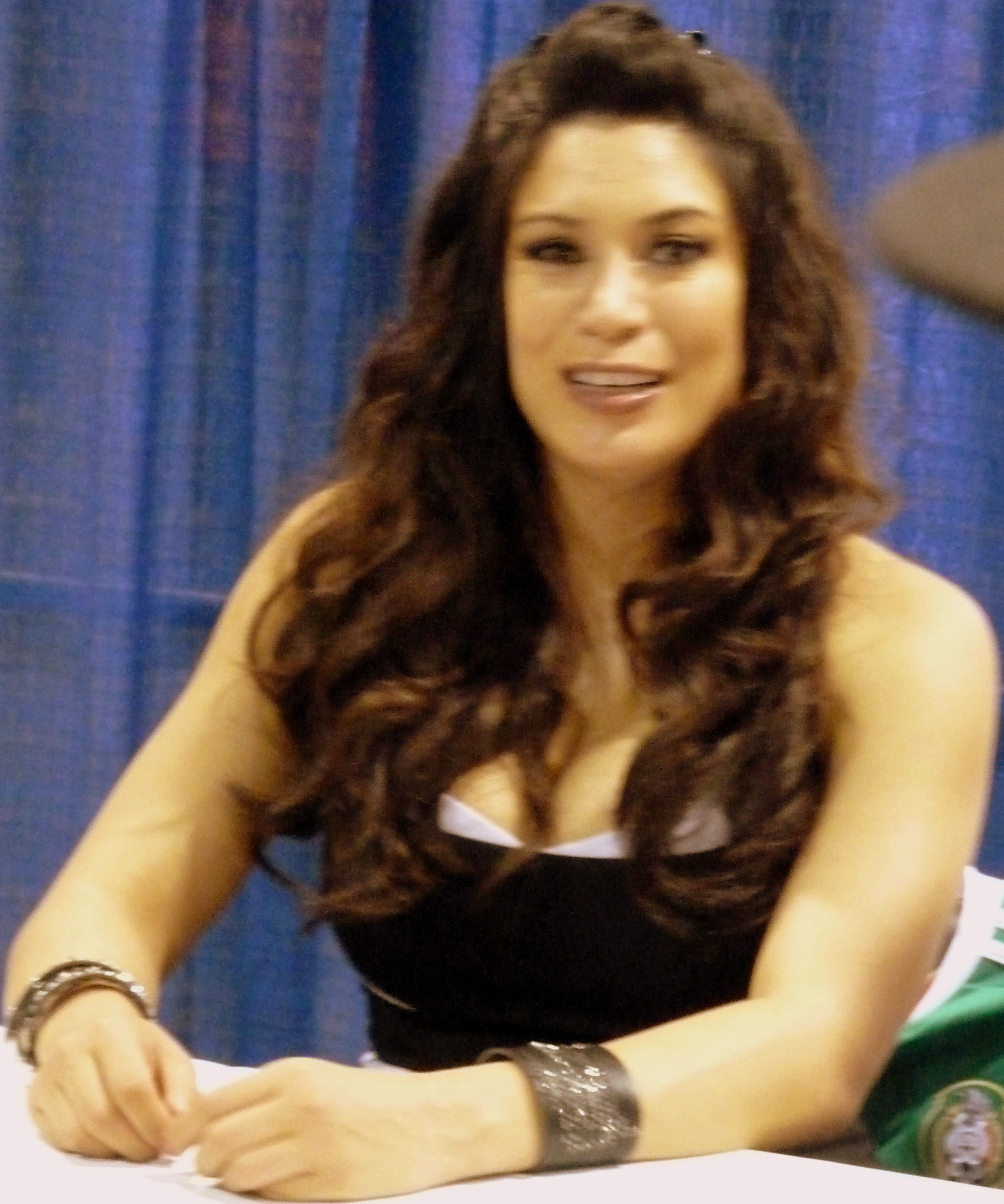 Melina Perez 2 Guests at Wizard World Chicago 2012.